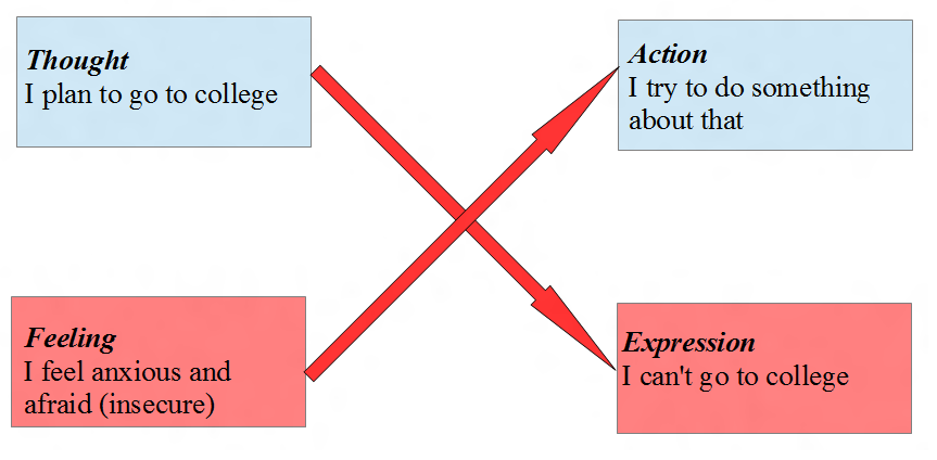 Relations therapy: crossed intrapersonal relations before therapy. Based on information from Tapu CS, (2011) The Complete Guide to Relational Therapy.